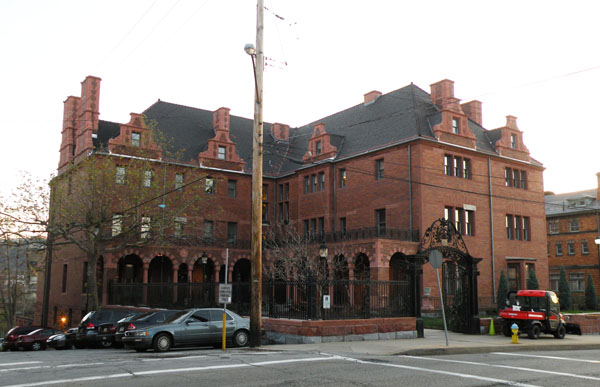 Picture of Byers-Lyons House (now Byers Hall) located at 901 Ridge Avenue in the Allegheny West neighborhood of Pittsburgh, Pennsylvania, on December 1, 2009. The house was built in 1898, for Alexander M. Byers, and is listed on the National Register of Historic Places. Architects: Alden & Harlow. Architectural style: Renaissance Revival, Other, Châteauesque (perhaps). Today, the former mansion is now a student center for the Community College of Allegheny County (CCAC).